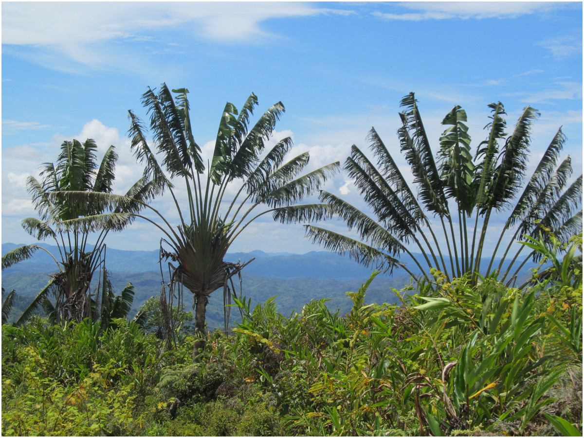 Ravenala madagascariensis (travaller's tree) in the east of Madagascar.